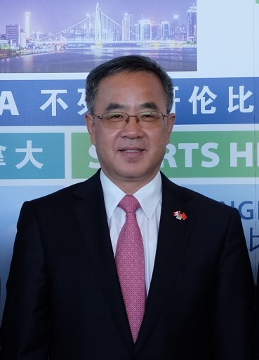 Hu Chunhua, a member of the Politburo of the CPC and Secretary of the CPC Guangdong Committee, was in Vancouver, British Columbia, Canada. This photo was taken on May 9, 2016. 中文（中国大陆）: 时任中共中央政治局委员、中共广东省委书记胡春华在加拿大温哥华出席经贸合作活动并签署一系列协议，摄于2016年5月9日。 粵語: 中共中央政治局委員、中共廣東省委書記胡春華喺加拿大溫哥華出席經貿合作活動同簽署協議，2016年5月9日影。